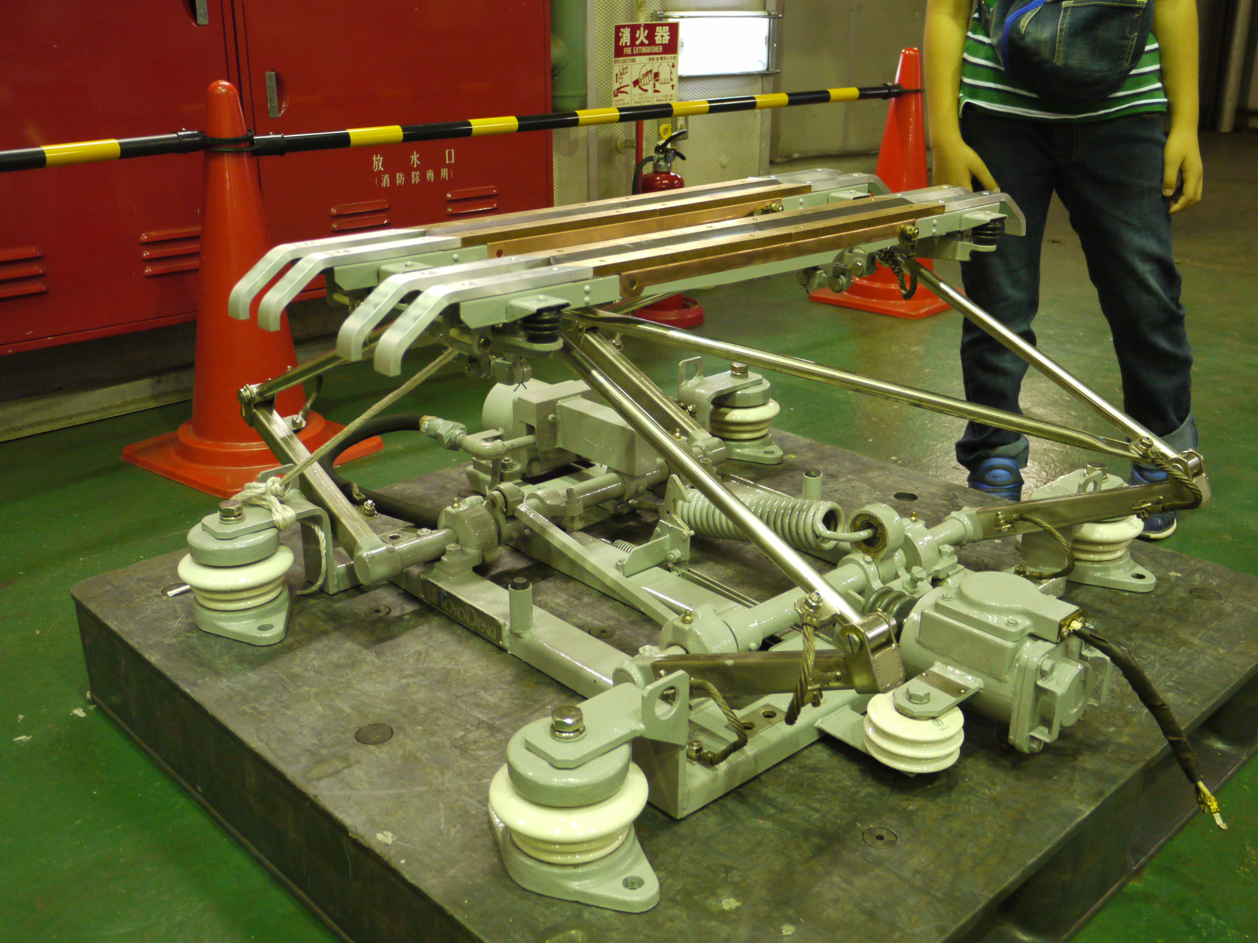 PT6102-A pantograph for Kyoto subway 50 series